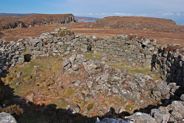 Dun Fiadhairt